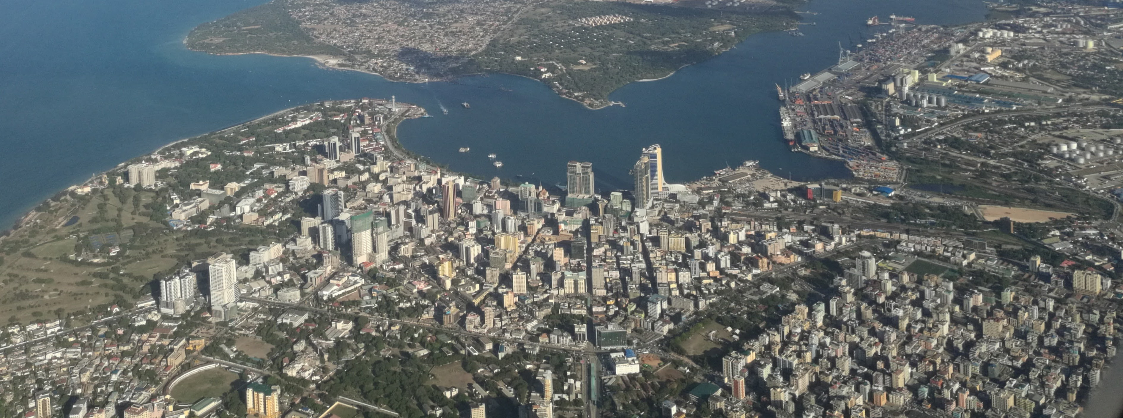 Aerial view of the city of Dar es Salaam